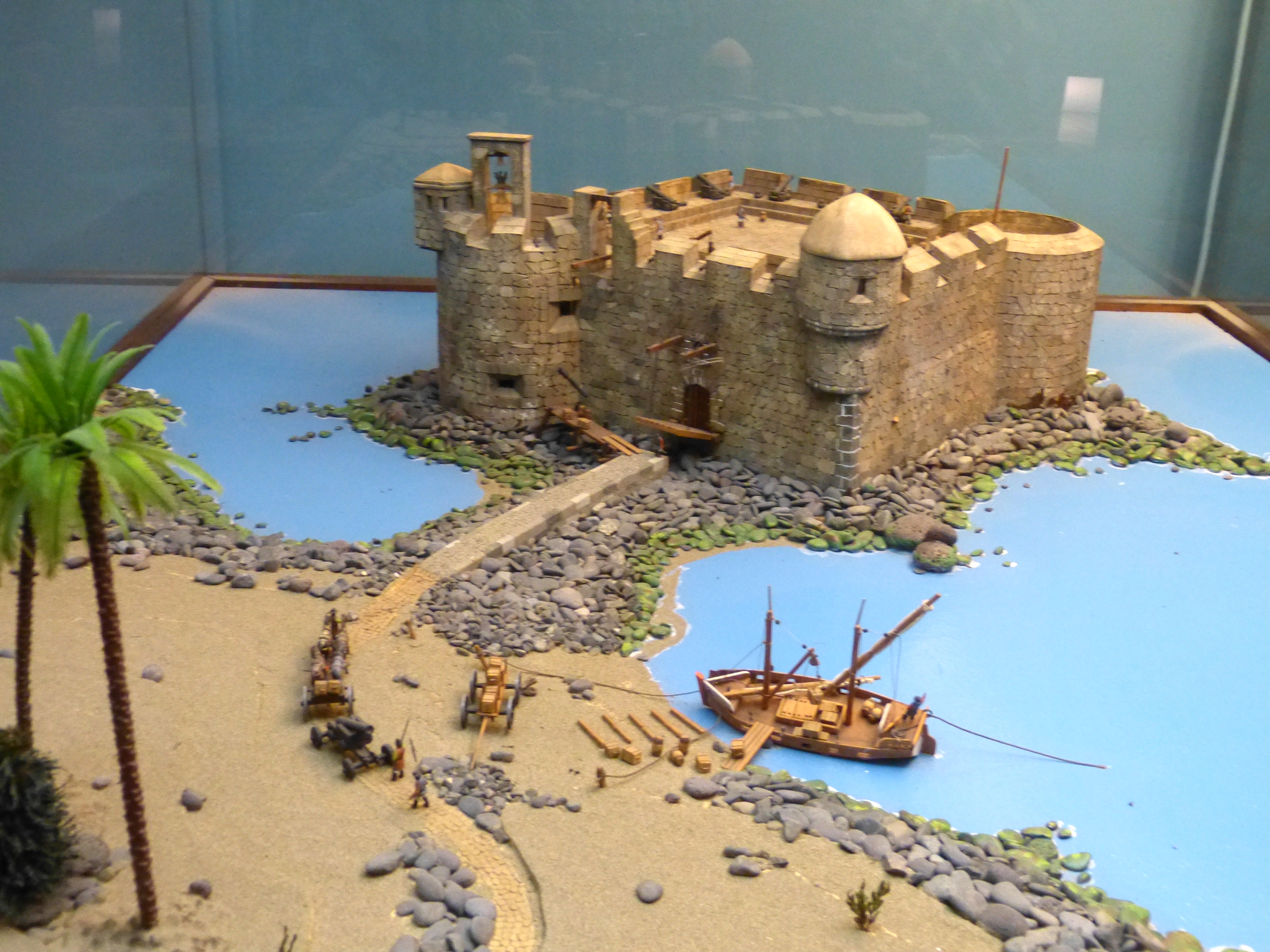 Las Palmas ( Gran Canaria ). Casa de Colon - Collections: Model of Castillo de la Luz ( 15th century ).